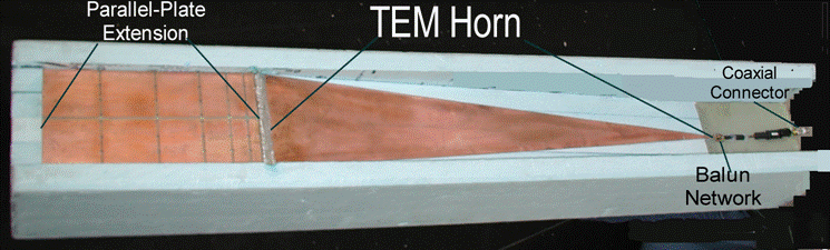 Prototype of a NIST-developed 1.2 m TEM horn antenna